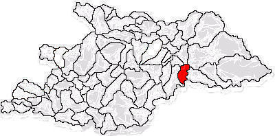 Map of Săliştea de Sus commune in Maramures County